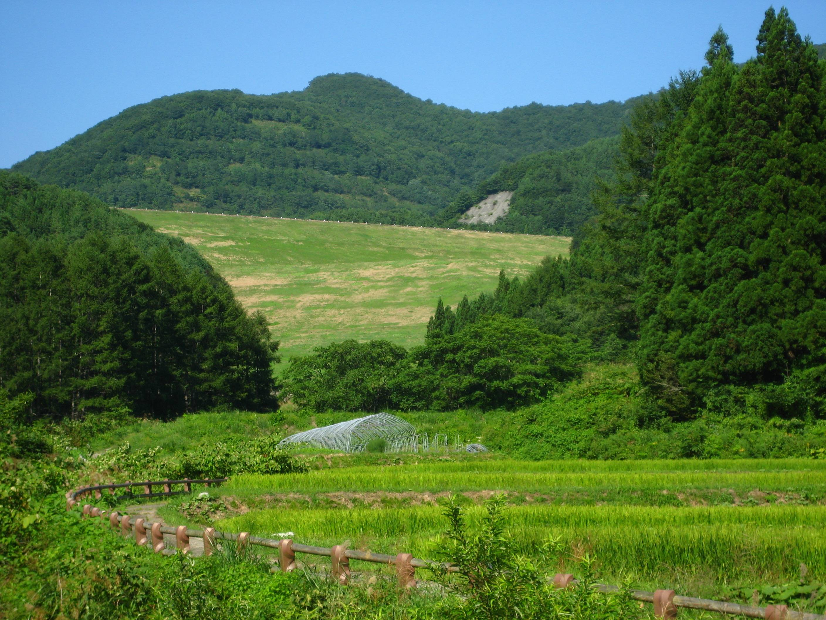 Ōuchi Dam (大内ダム) in Shimogō town, Fukushima prefecture, Japan.